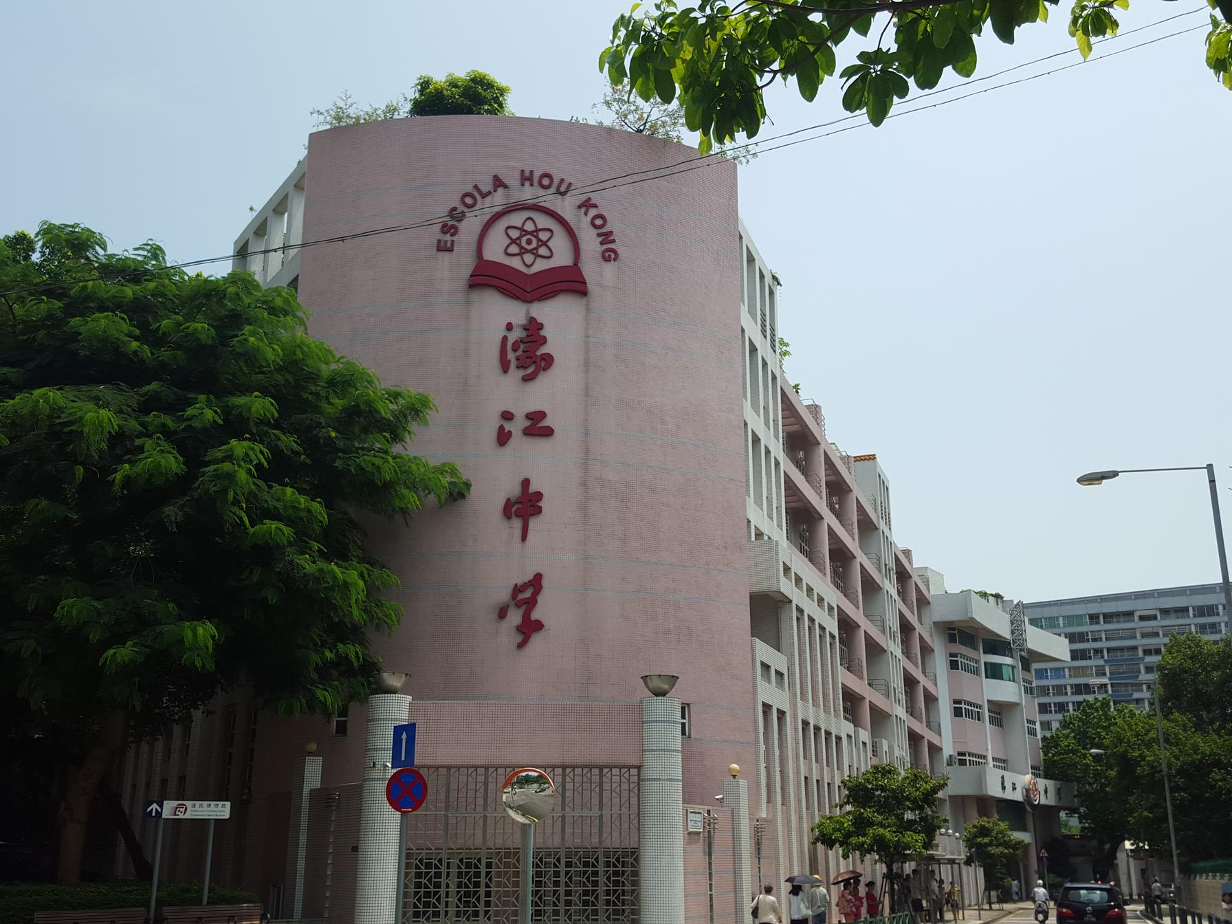 Hou Kong Middle School